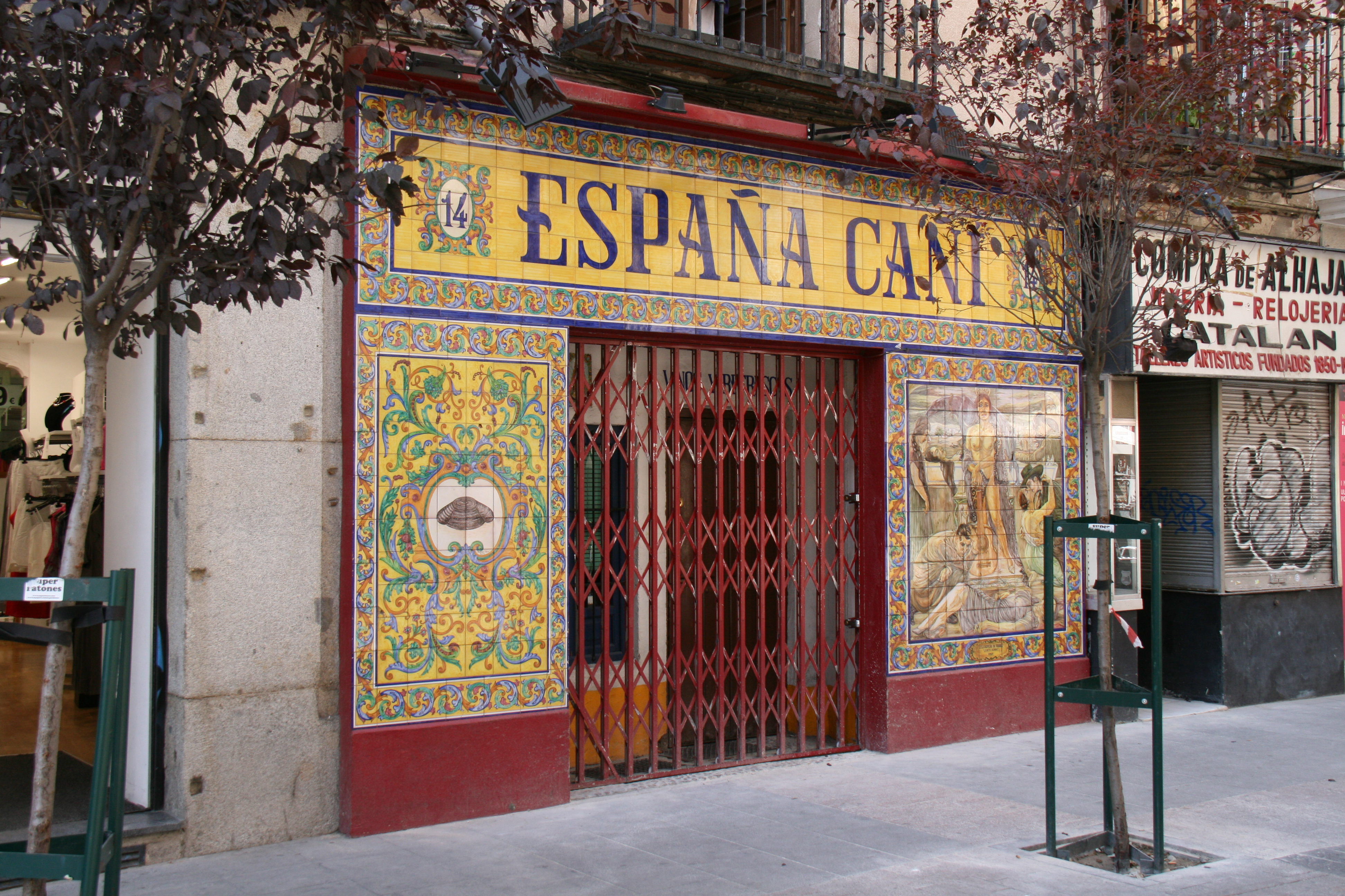 España Cañí (meaning "Gypsy Spain" in Spanish language)